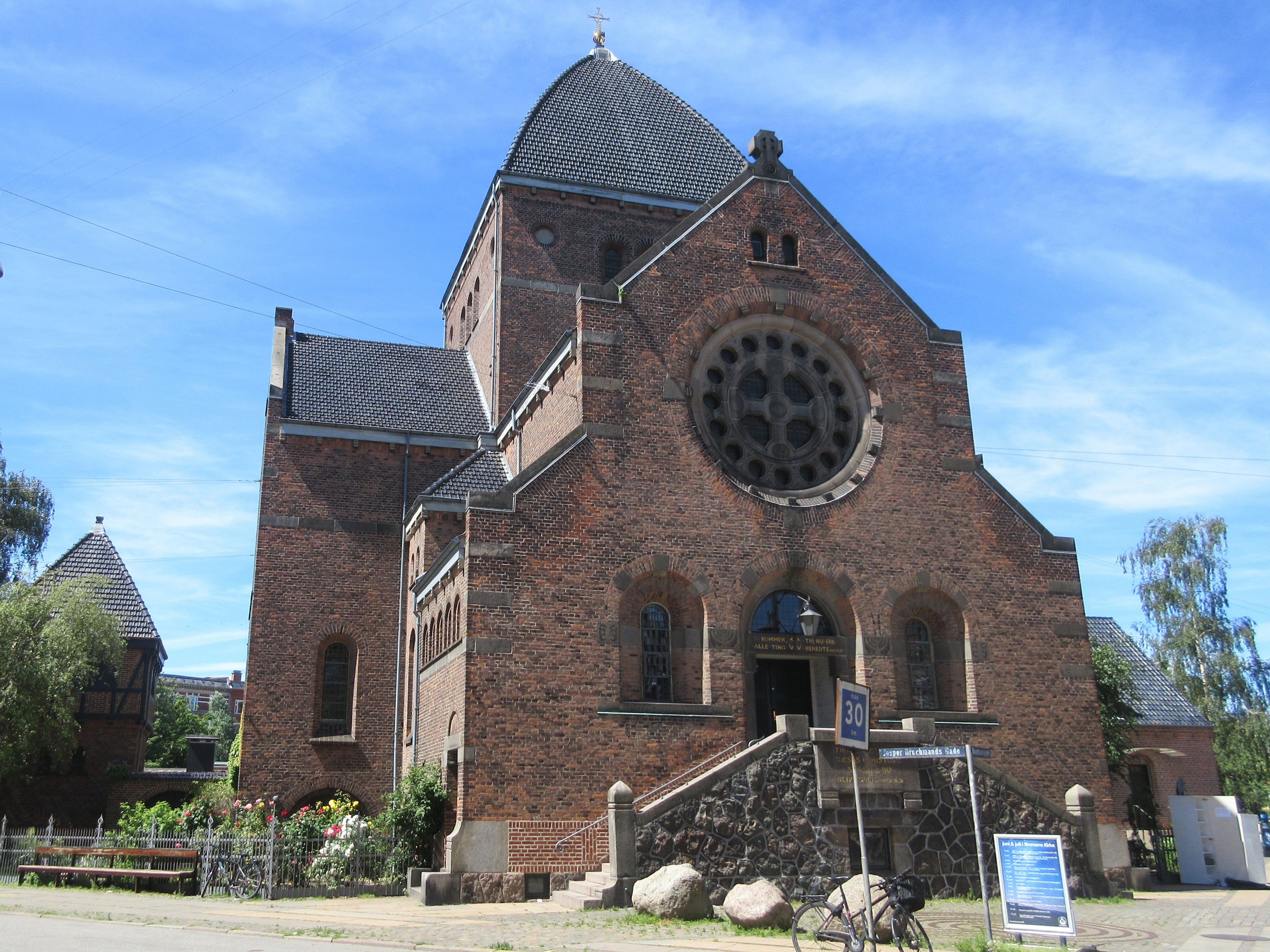 Brorsons Kirke on Ranzausgade in Copenhagen, Denmark